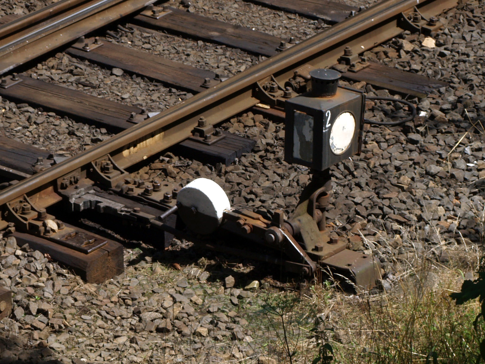 Railroad switch hand-operated mechanism, Wisła Głębce train station.